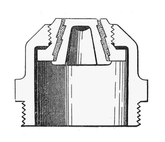 'National' fusible plug, section (Army Service Corps Training, Mechanical Transport, 1911).jpg